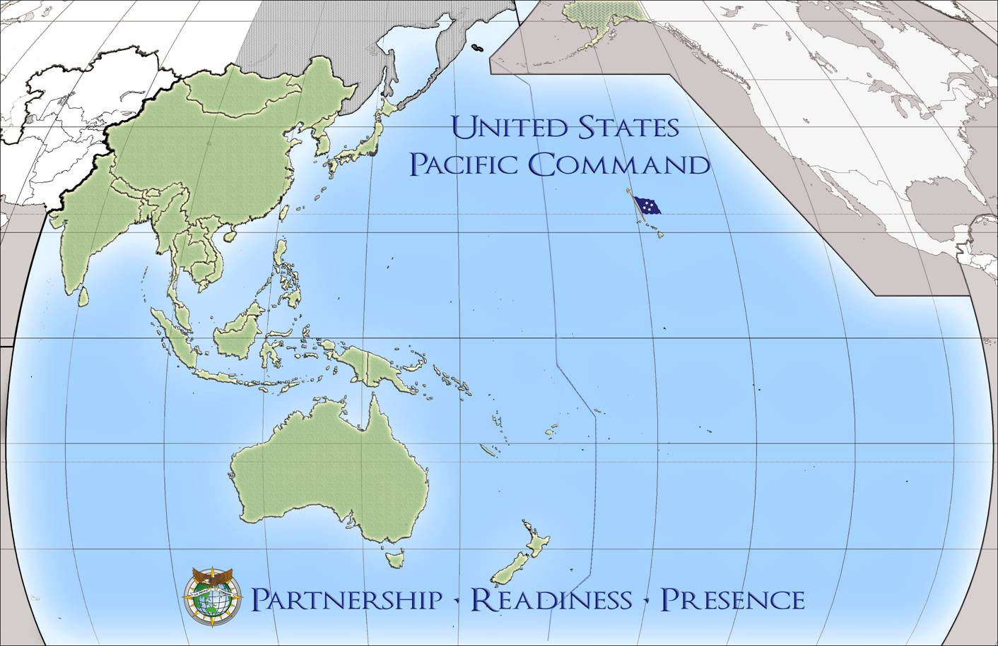 Map of the PACOM / JIATF West AOR